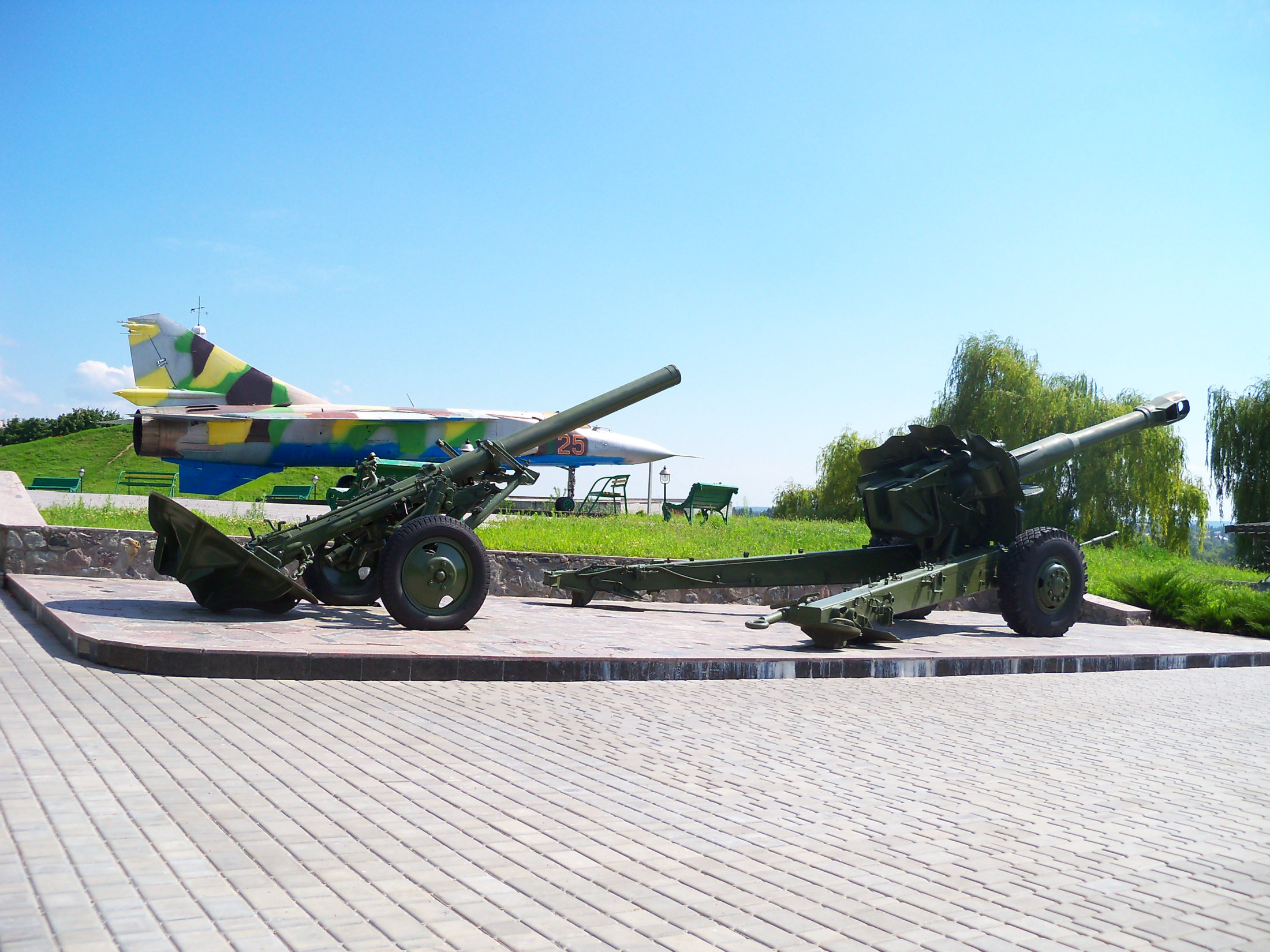 Kremenchuk Park of Peace